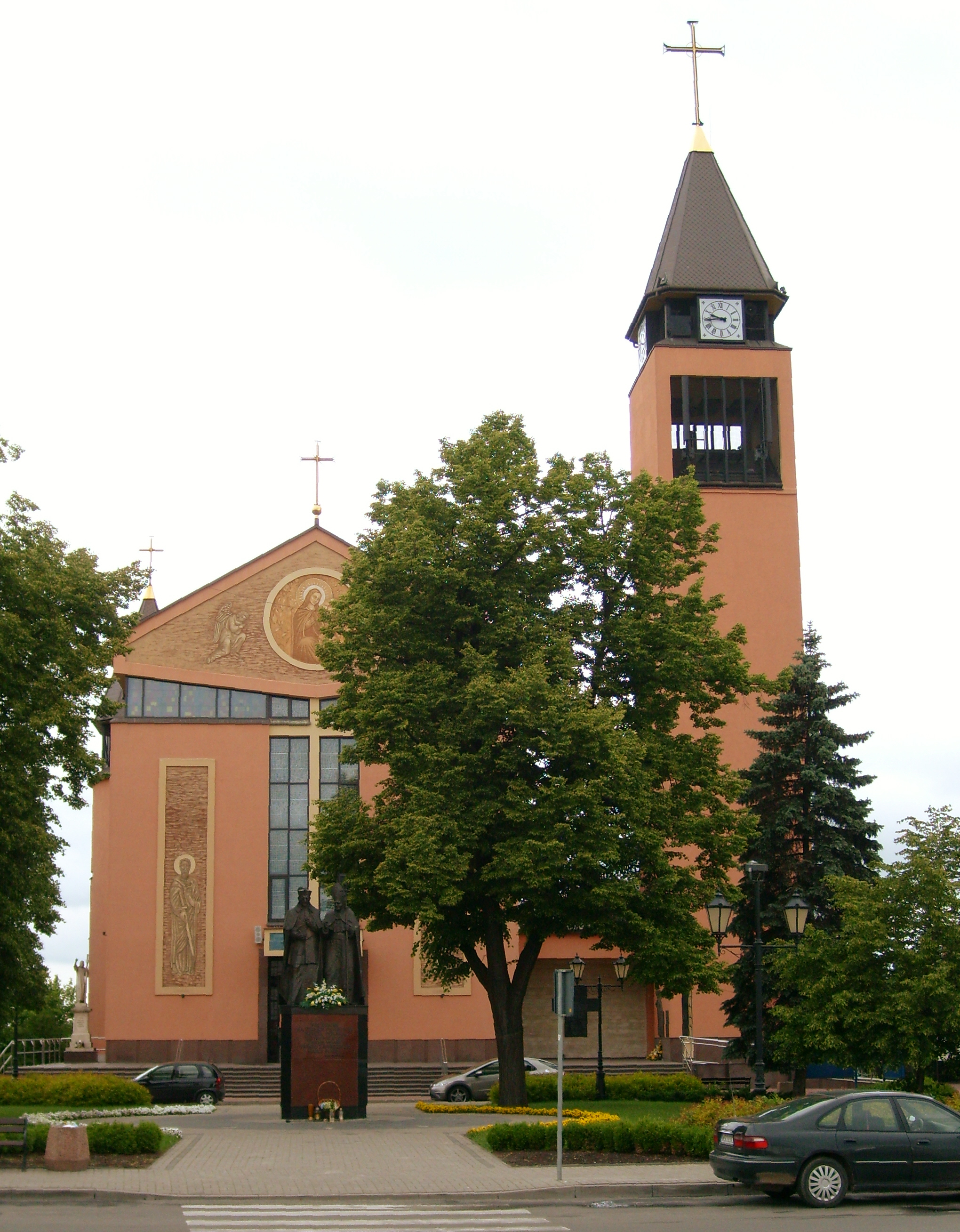 Sochaczew - parish church